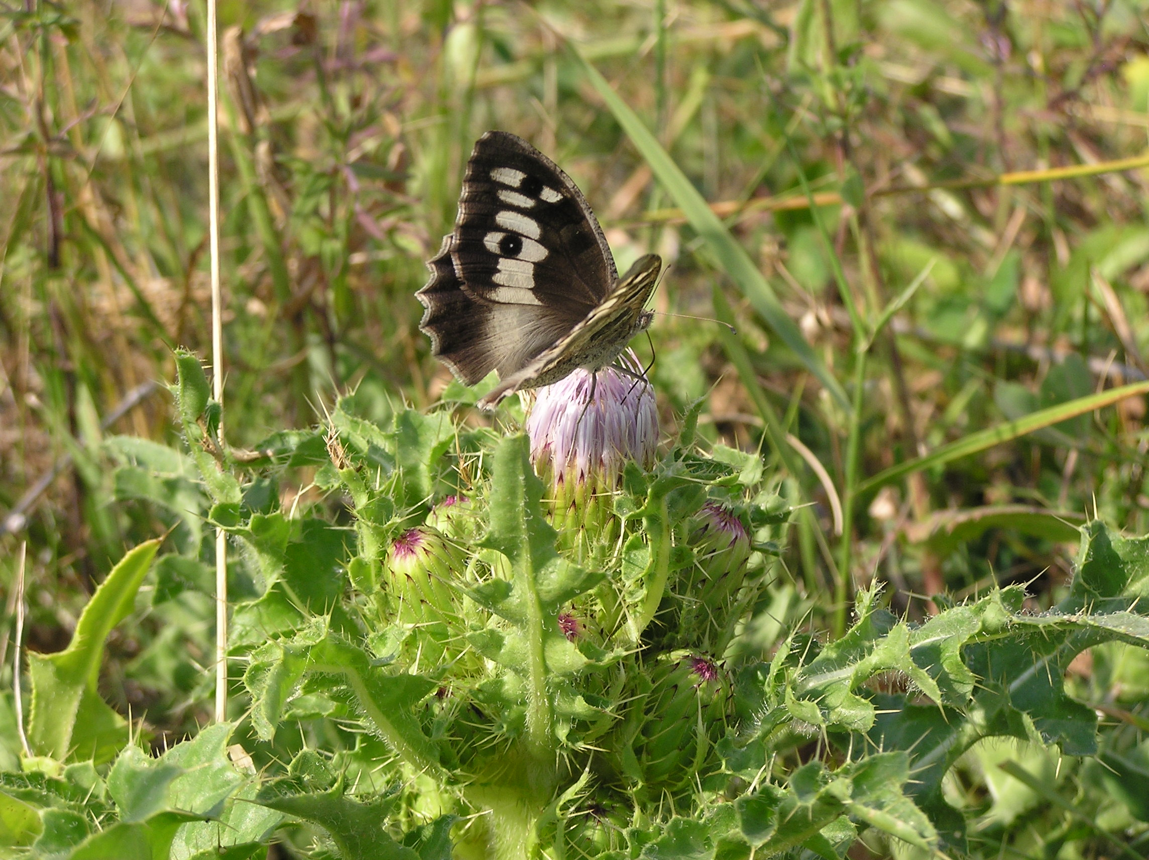 Cirsium roseolum Gorl., and the Hermit (Chazara briseis ssp. major Obth.). Habitat: saline medow. Vicinity of Saratov city, Russia.